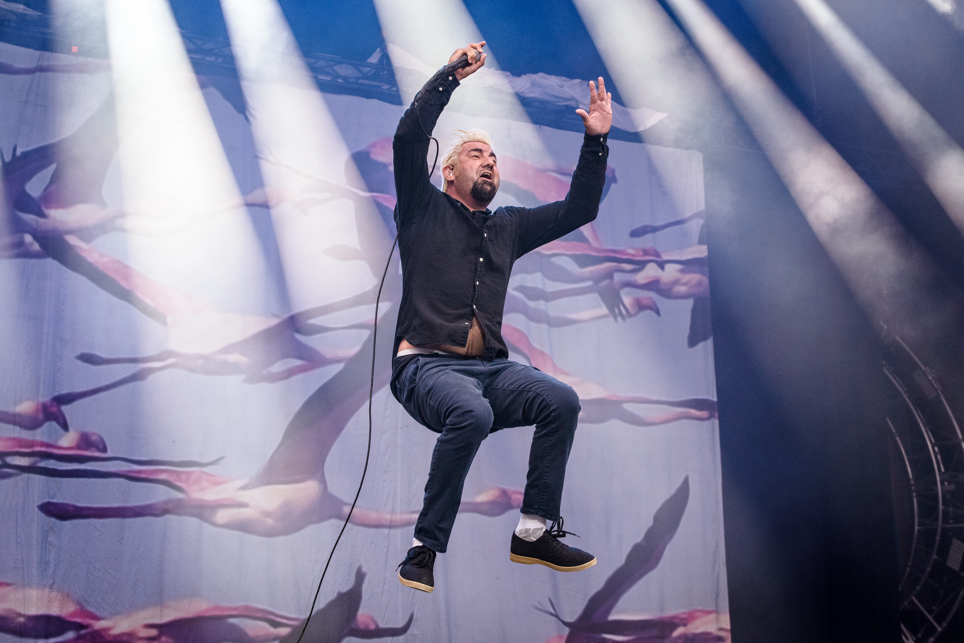 Deftones @ Rock im Park 2016